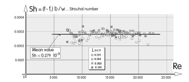 Fluidic Oscillator